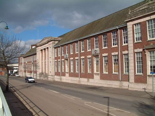 Staffordshire University frontage, Stoke Frontage on Station Road. See the frontage on College Road